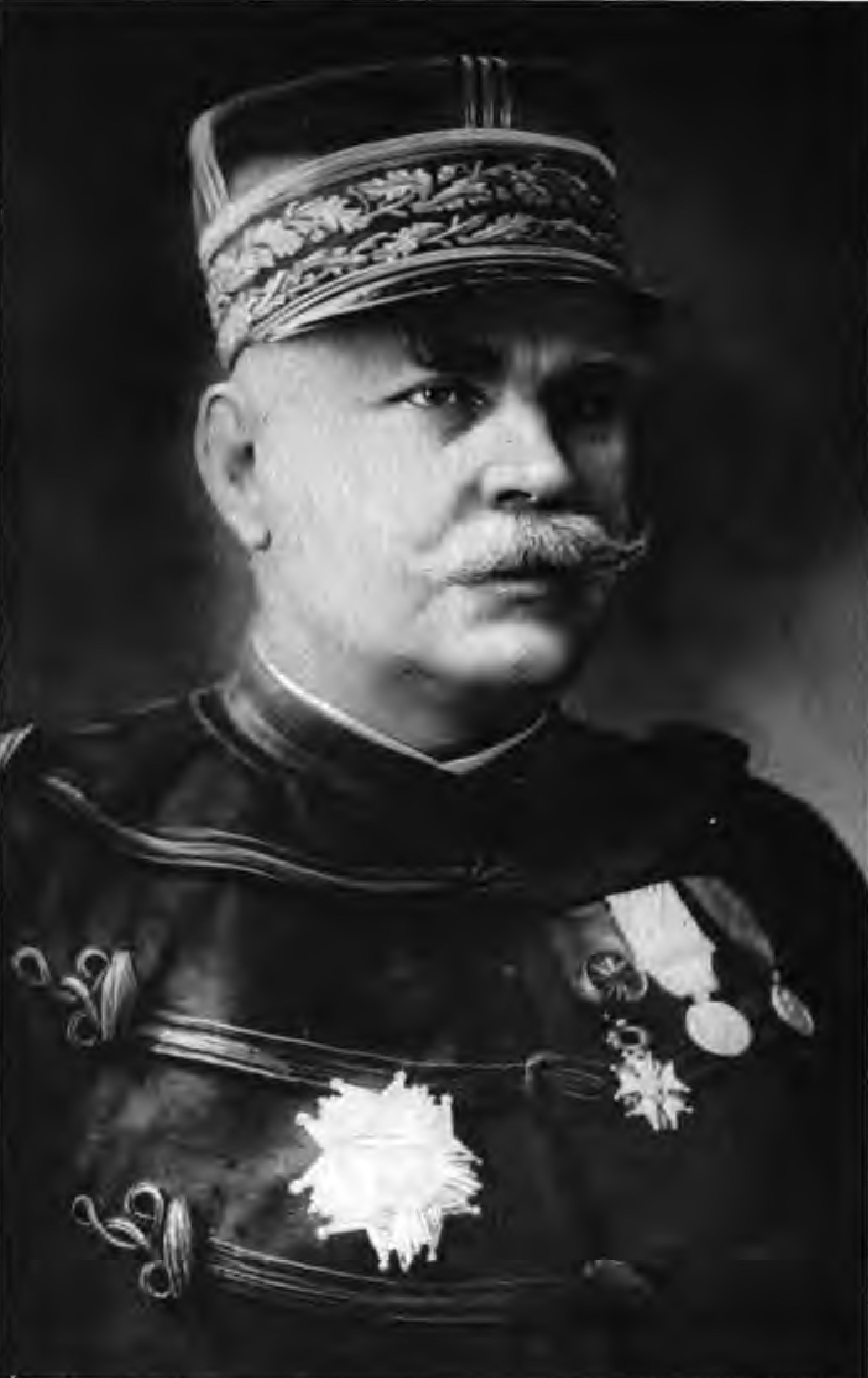 Gen. Joseph Joffre - The French Commander-in-Chief. From The New York Times Current History of the European War.